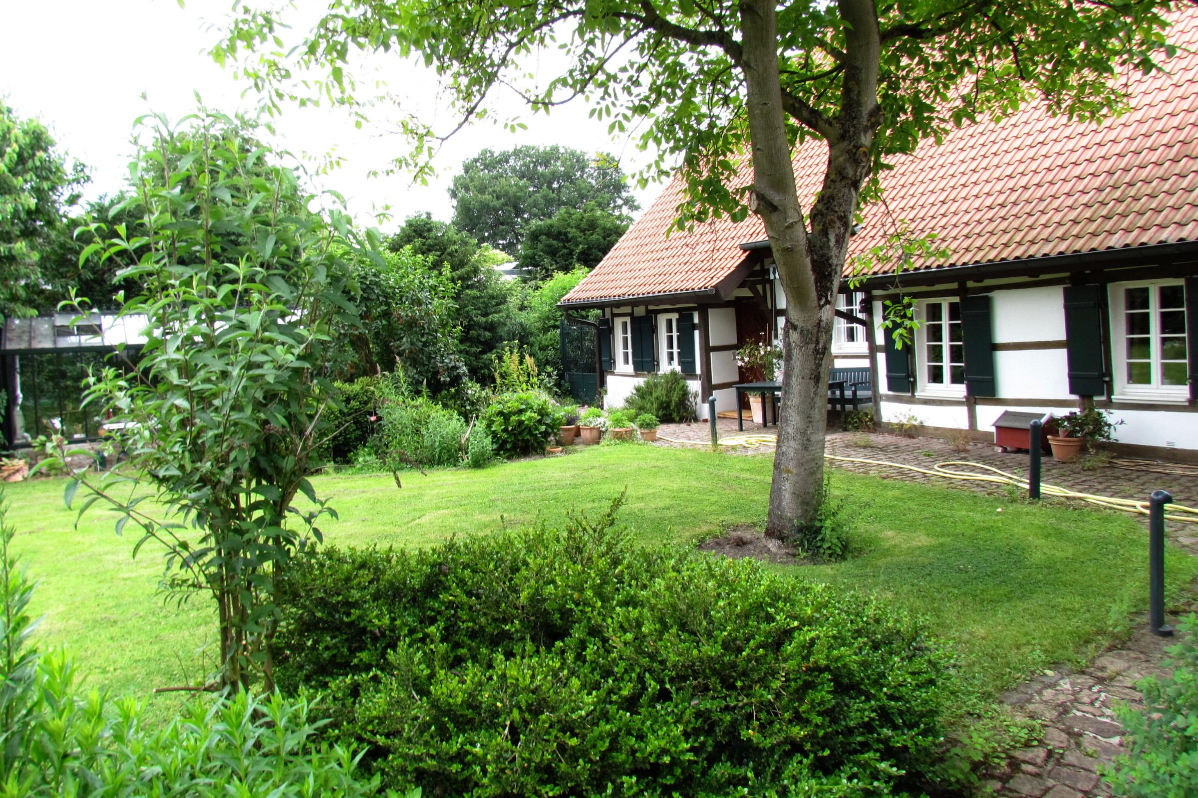 This is a photograph of an architectural monument.It is on the list of cultural monuments of Korschenbroich